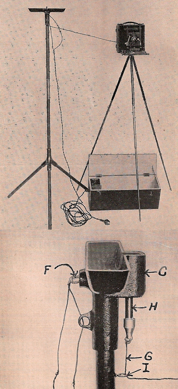 1910 flash-lamp detail. Crops from original Flickr image below.